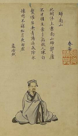 Tang dynasty poet Meng Haoran (689/691–740).